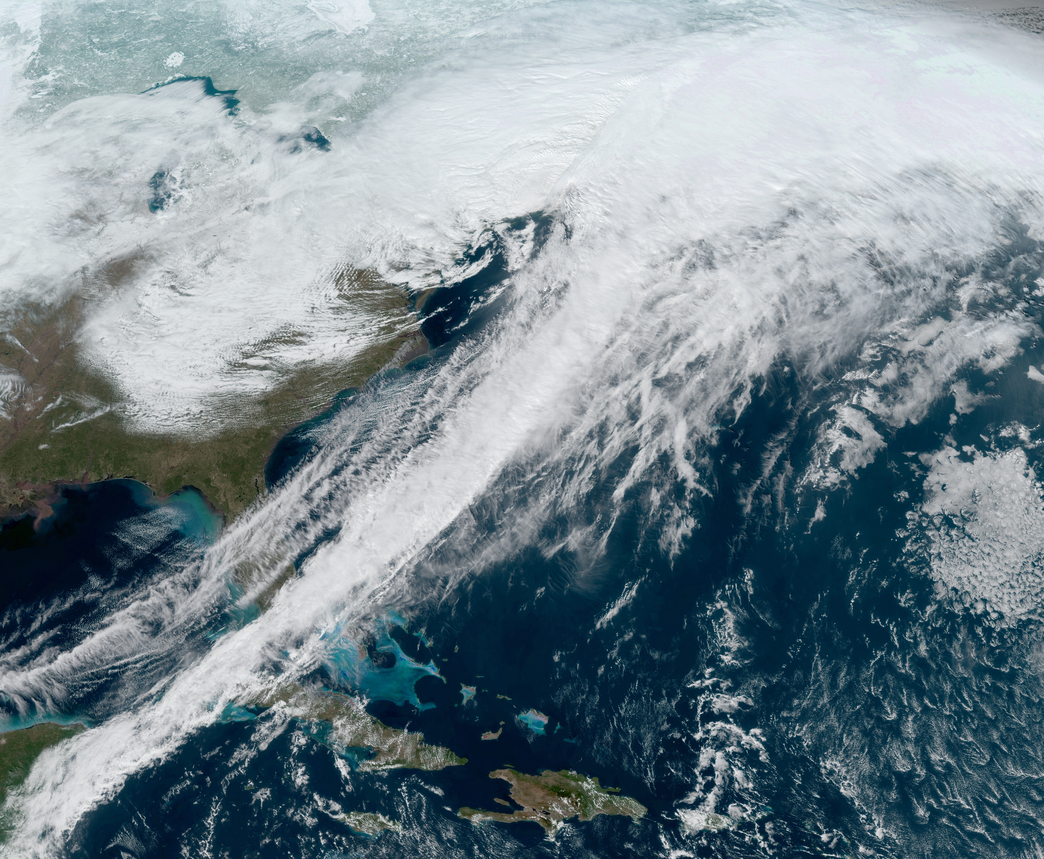 Storm Ciara, of the 2019-20 European windstorm season, at the eastern coast of the American continent on 7 February. Cut from the original, which has been archived.